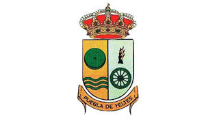 Puebla de Yeltes' flag